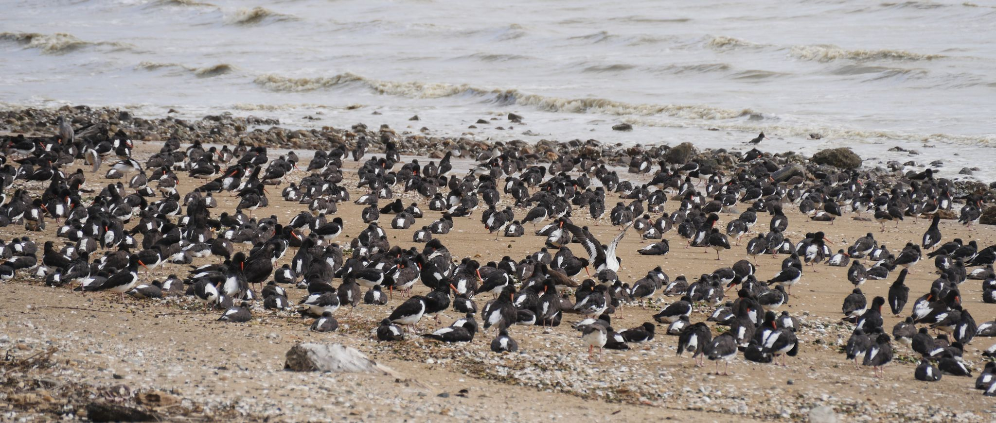 Firth of Thames, Seabird at the beach of Thames, Thames-Coromandel District, Waikato region, North Island, New Zealand